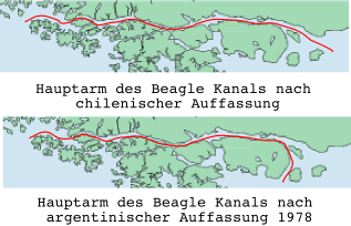 two versions about the Beagle Channel course